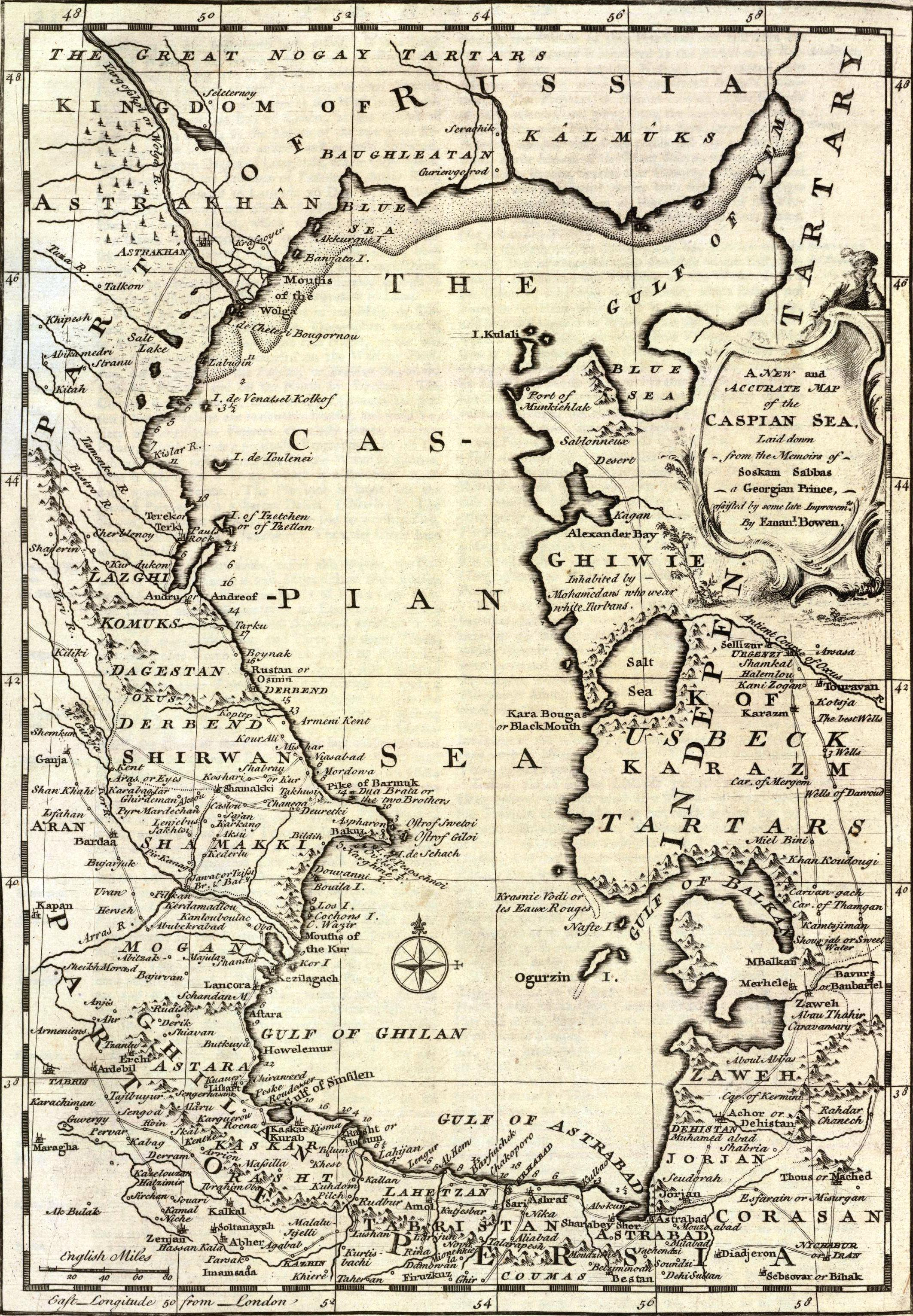 A new and accurate map of the Caspian Sea, laid down from the memoirs of Soskam Sabbus, a Georgian Prince, assisted by some late improvemets. By Emanl. Bowen. (London: Printed for William Innys, Richard Ware, Aaron Ward, J. and P. Knapton, John Clarke, T. Longman and T. Shewell, Thomas Osborne, Henry Whitridge ... M.DCC.XLVII)